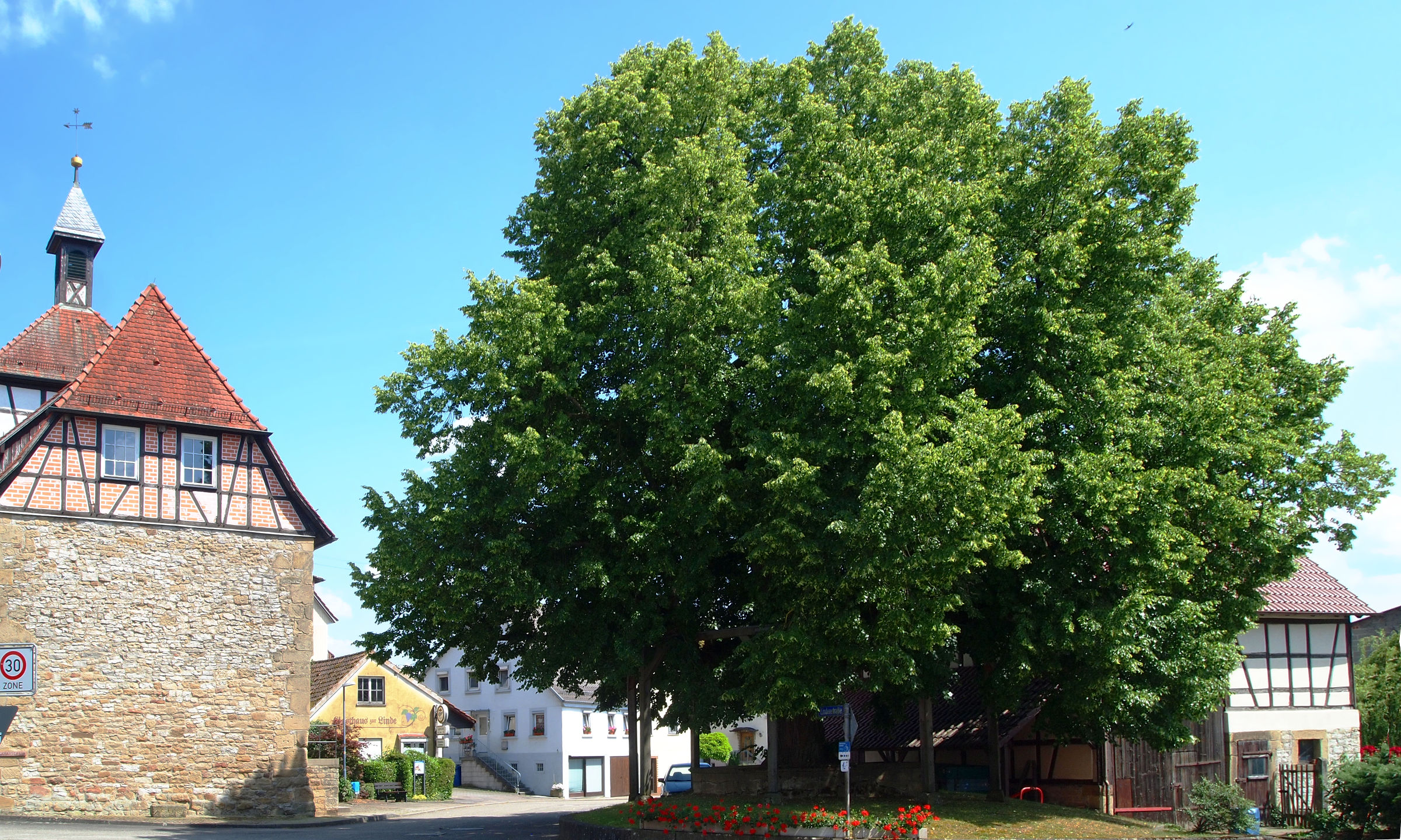 Lower little church and hunger lime tree in Langenbeutingen, Germany